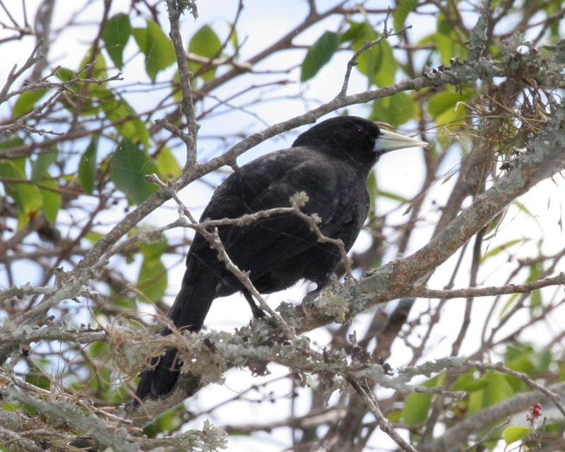 Solitary Cacique or Solitary Black Cacique (Cacicus solitarius) at Ibera Marshes, Argentina.